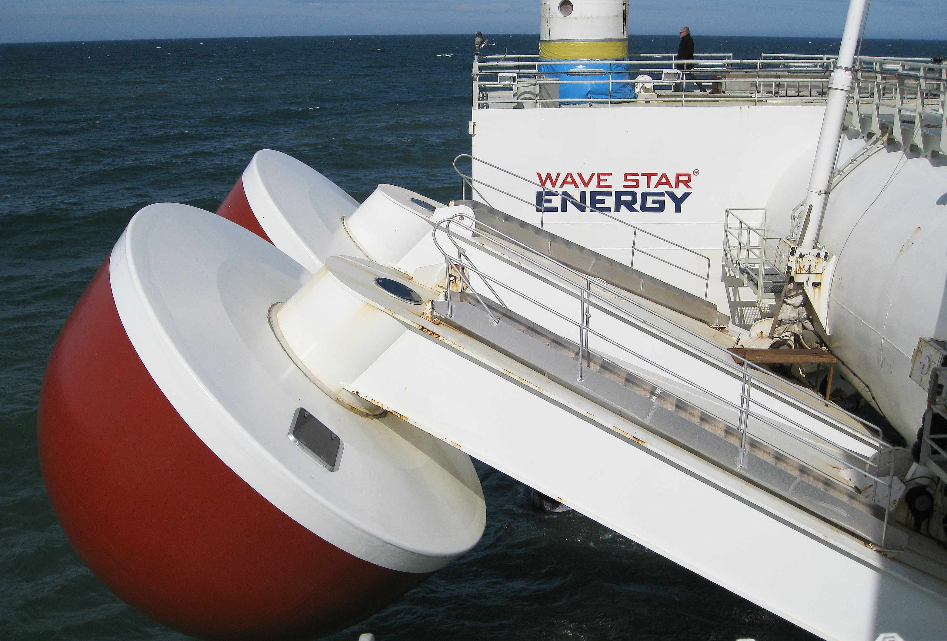 The 2 power uptake floats on an experimental Wave Star wave power machine in Hanstholm, Denmark.